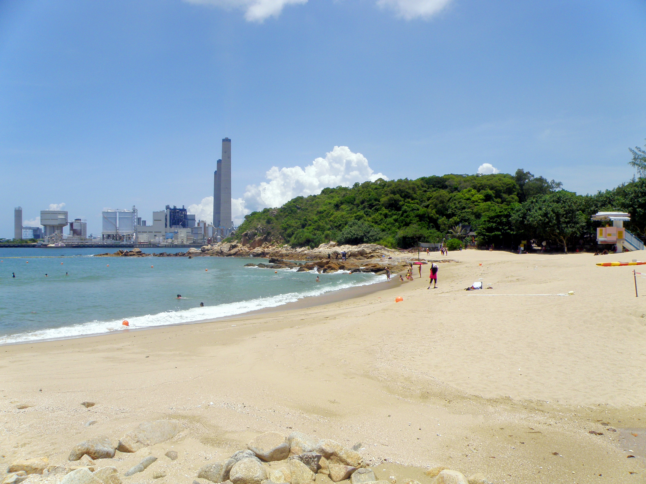 Hung Shing Yeh Beach in Lamma Island, Hongb Kong.